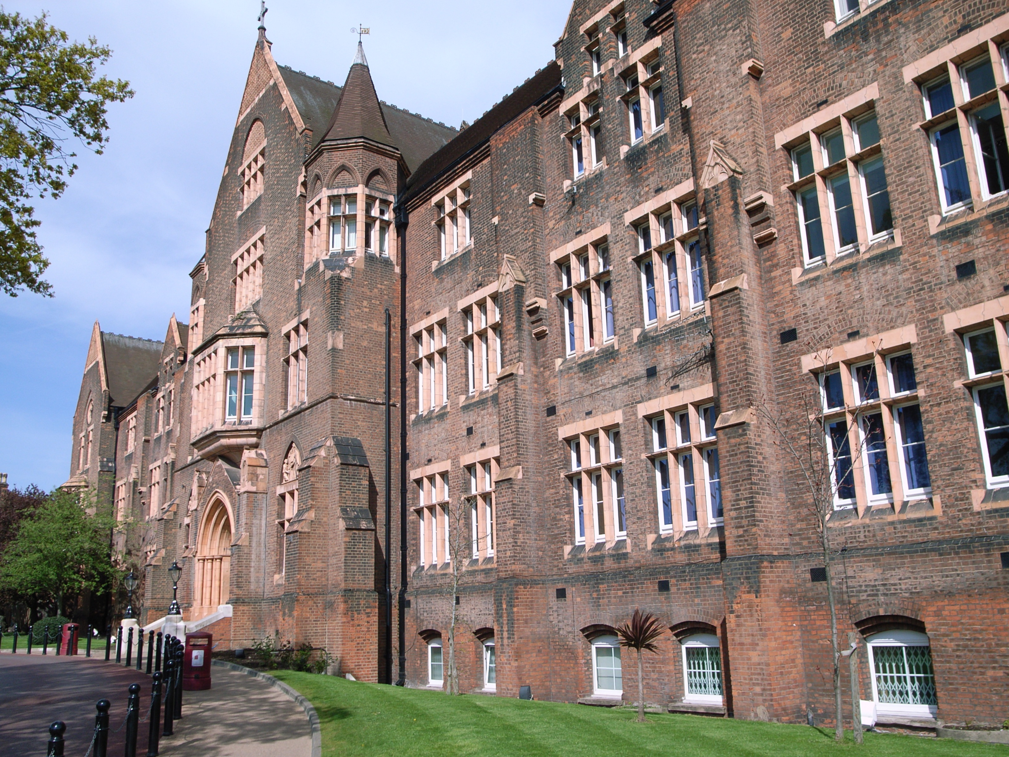 St Dunstan's (1888) by E.N. Clifton. This was the old, victorian part of this public school - very different from the dining hall. Photos taken on a Twentieth Century Society walk round Catford and Lewisham in South London on 27th April 2008.